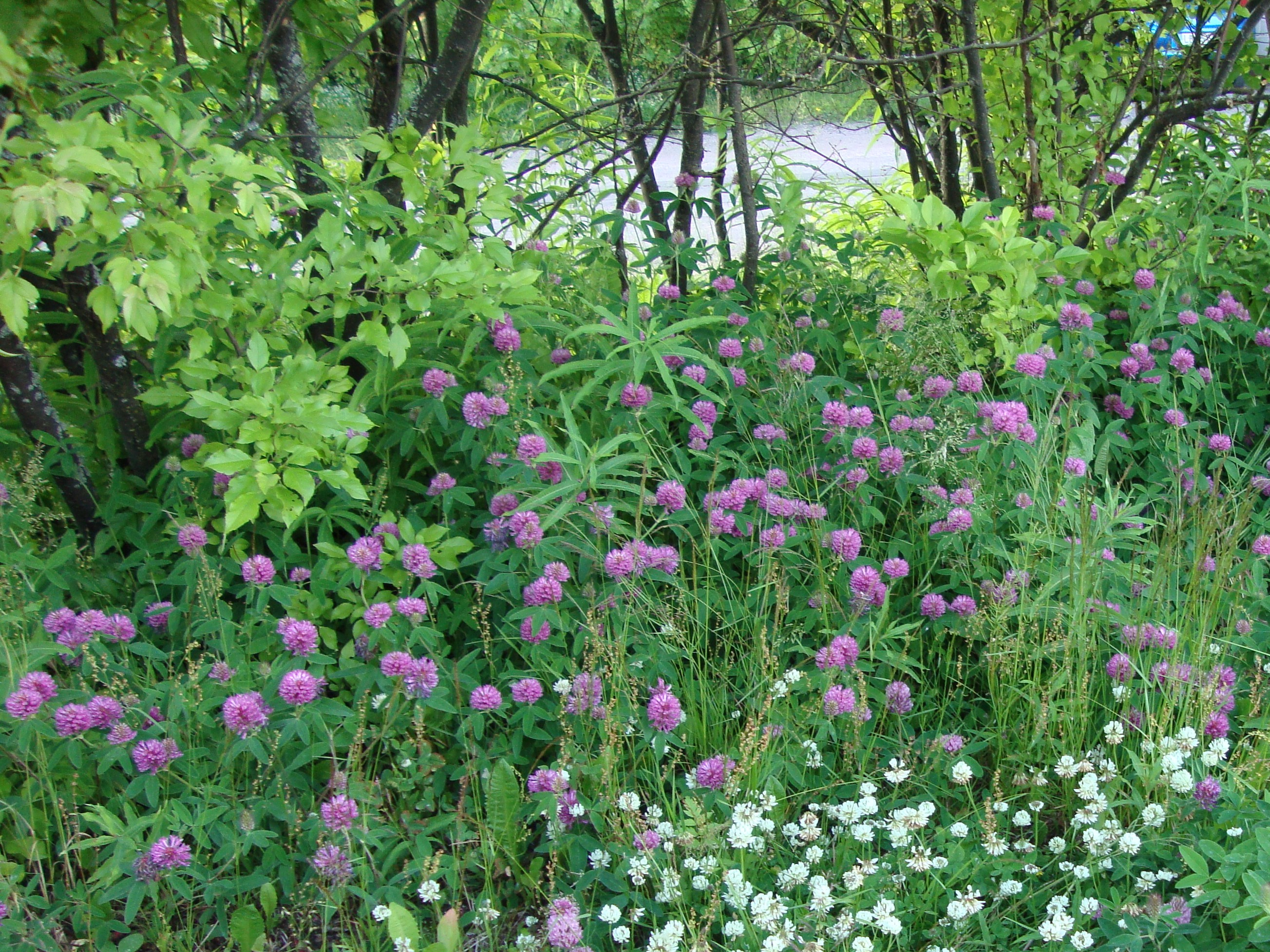 Trifolium medium in Kerava, Finland